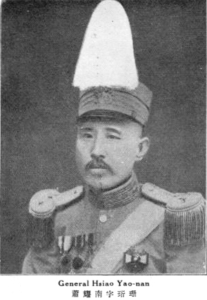 Xiao Yaonan (Hsiao Yao-nan), Hengshan (1877 - 1926)